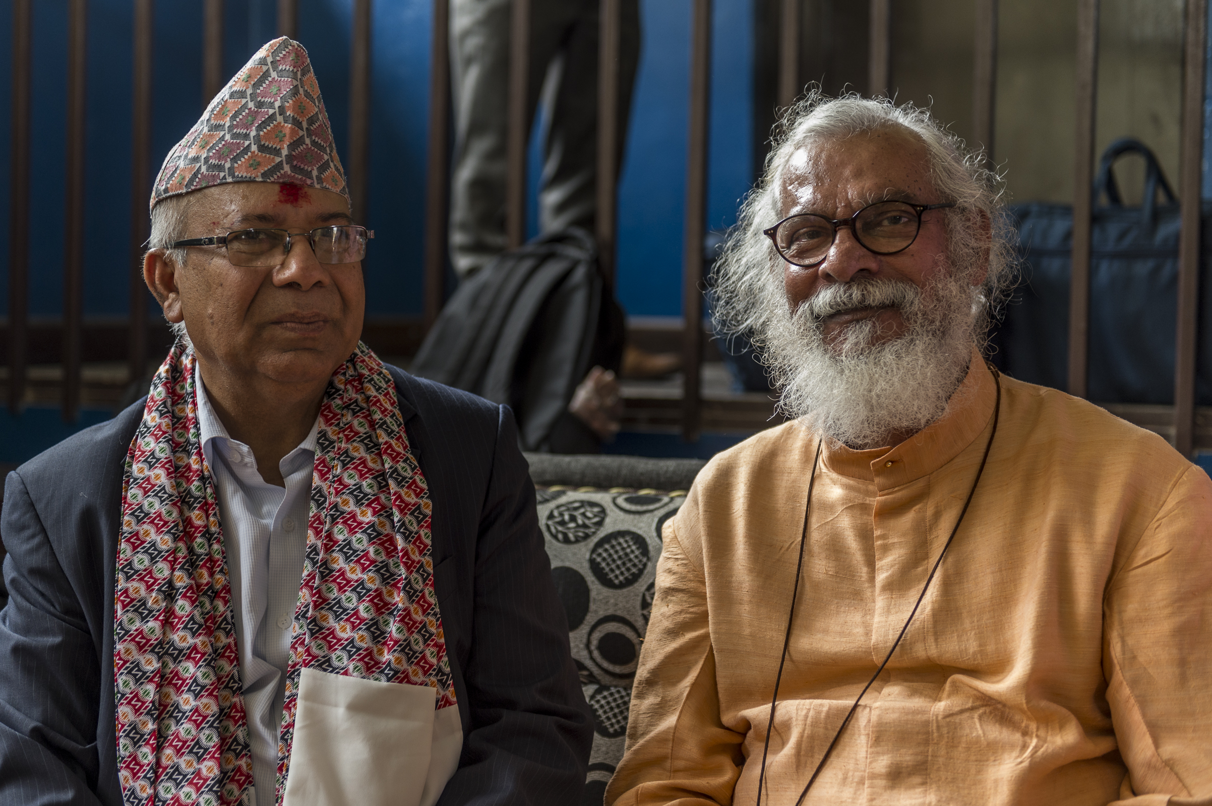 Dr. KP Yohannan with Madhav Kumar Nepal, former Prime Minister of Nepal, on July 9, 2017 at St. Xavier’s School in Kathmandu, Nepal.